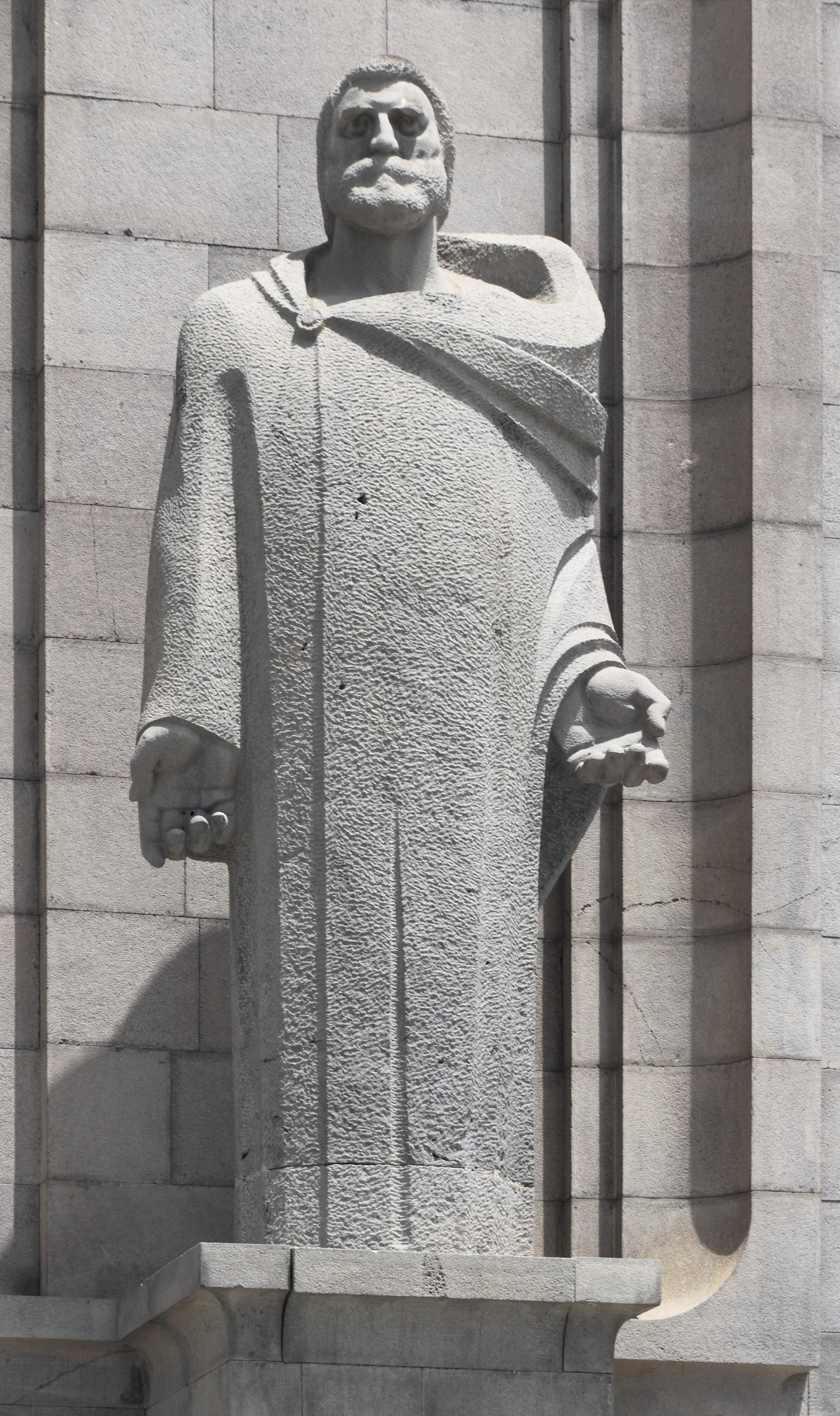 Statue of Frik. Matenadaran. Yerevan, Armenia.